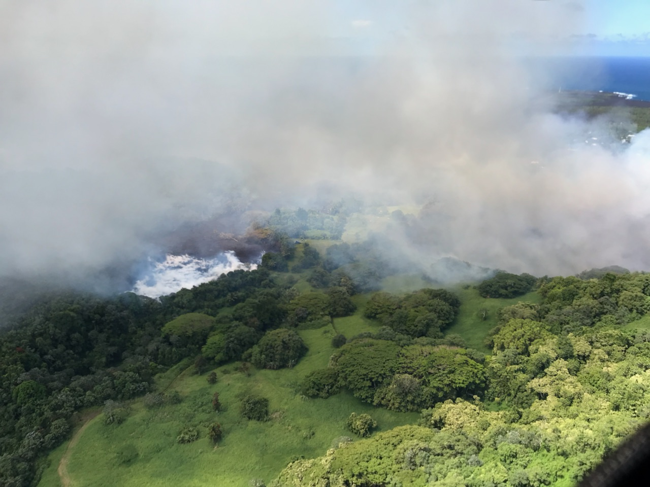 As fissure 8 lava flowed into Green Lake, the lake water boiled away, sending a white plume high into the sky—visible from afar between around 11:30 a.m. and 1:30 p.m. HST. This aerial photo, taken a couple of hours later by the Hawai‘i County Fire Department, shows still-steaming lava within Green Lake, located near the intersection of Highways 132 and 137.